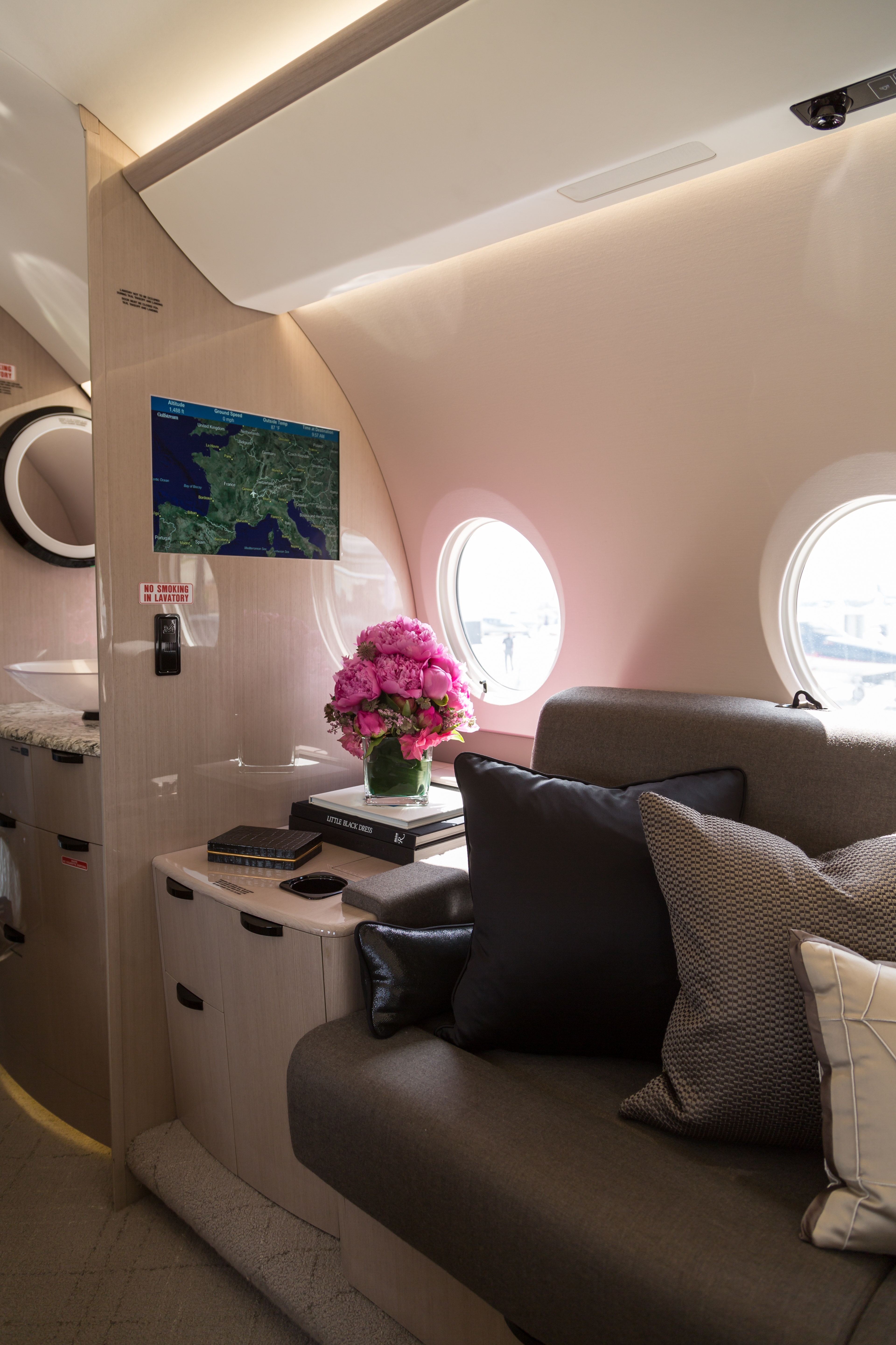 Gulfstream G280, EBACE 2018